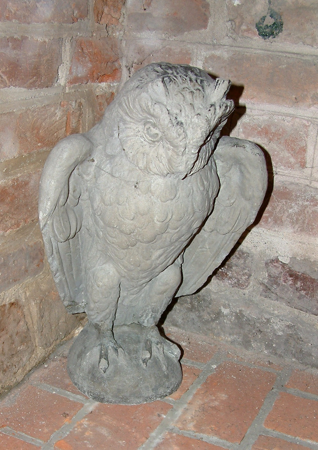 Detail in lapidary, underground of Poznań Archcathedral Basilica of St. Peter and St. Paul